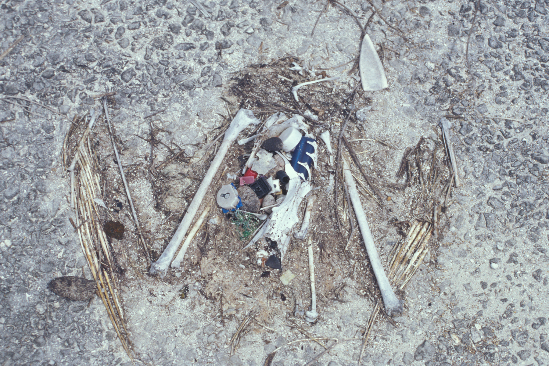 Diomedea immutabilis chick remains. Location: Midway Atoll, Eastern Island